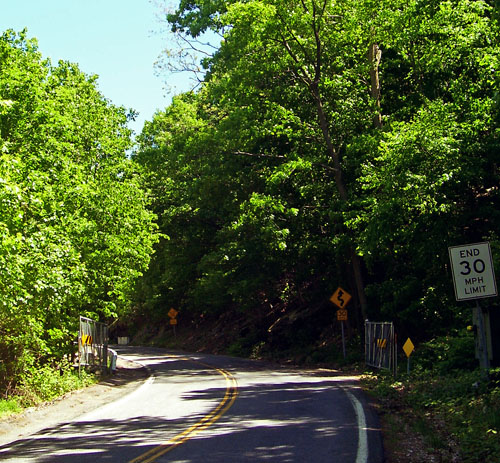 Photographed by Daniel Case 2006-05-22